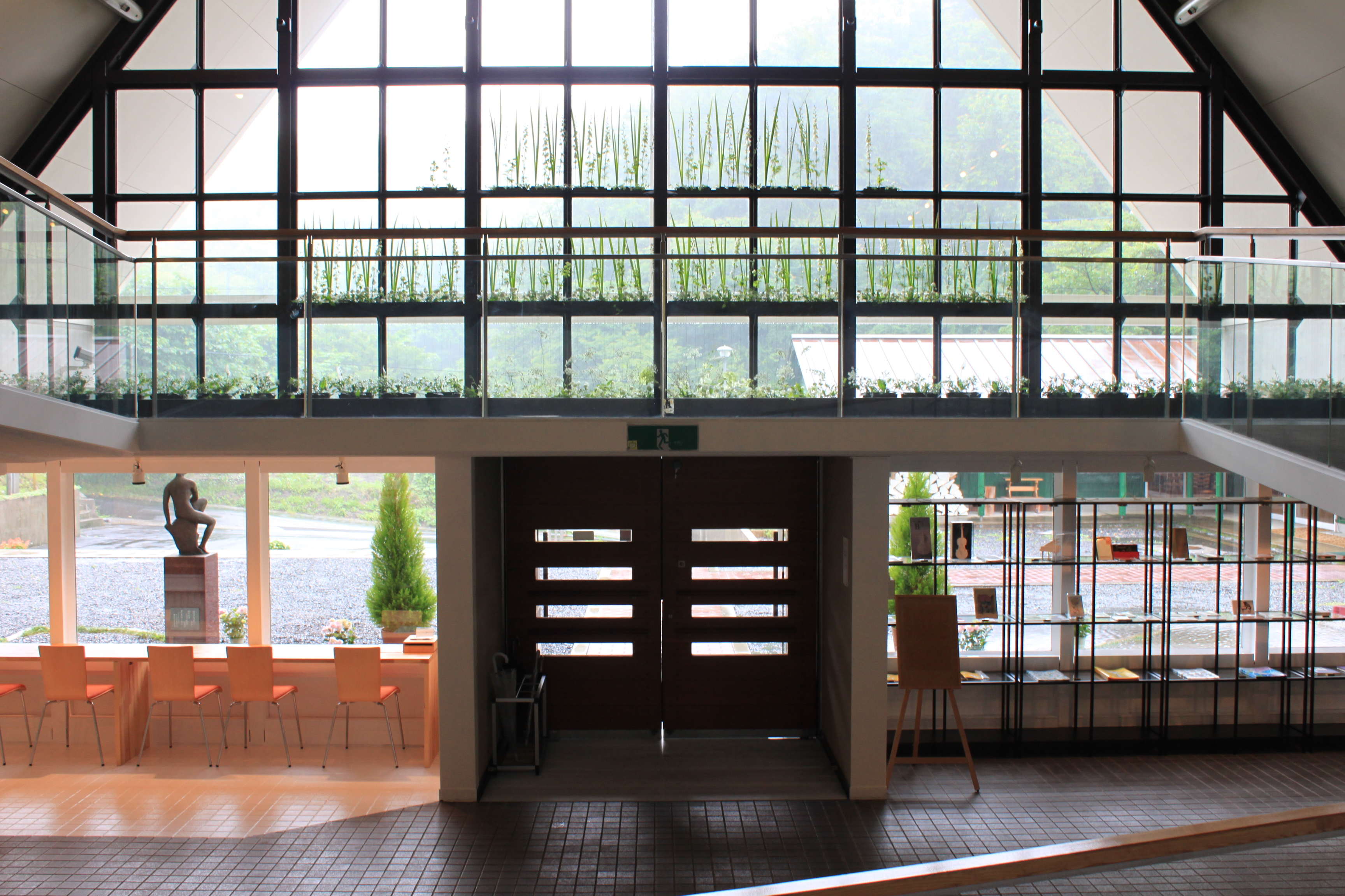 misasa museum,tottori japan